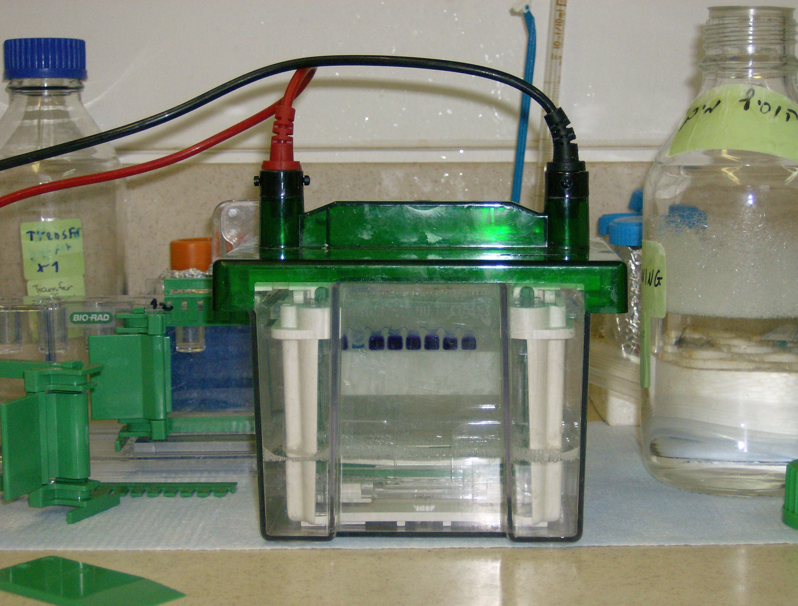 Gel electrophoresis device for western bloting